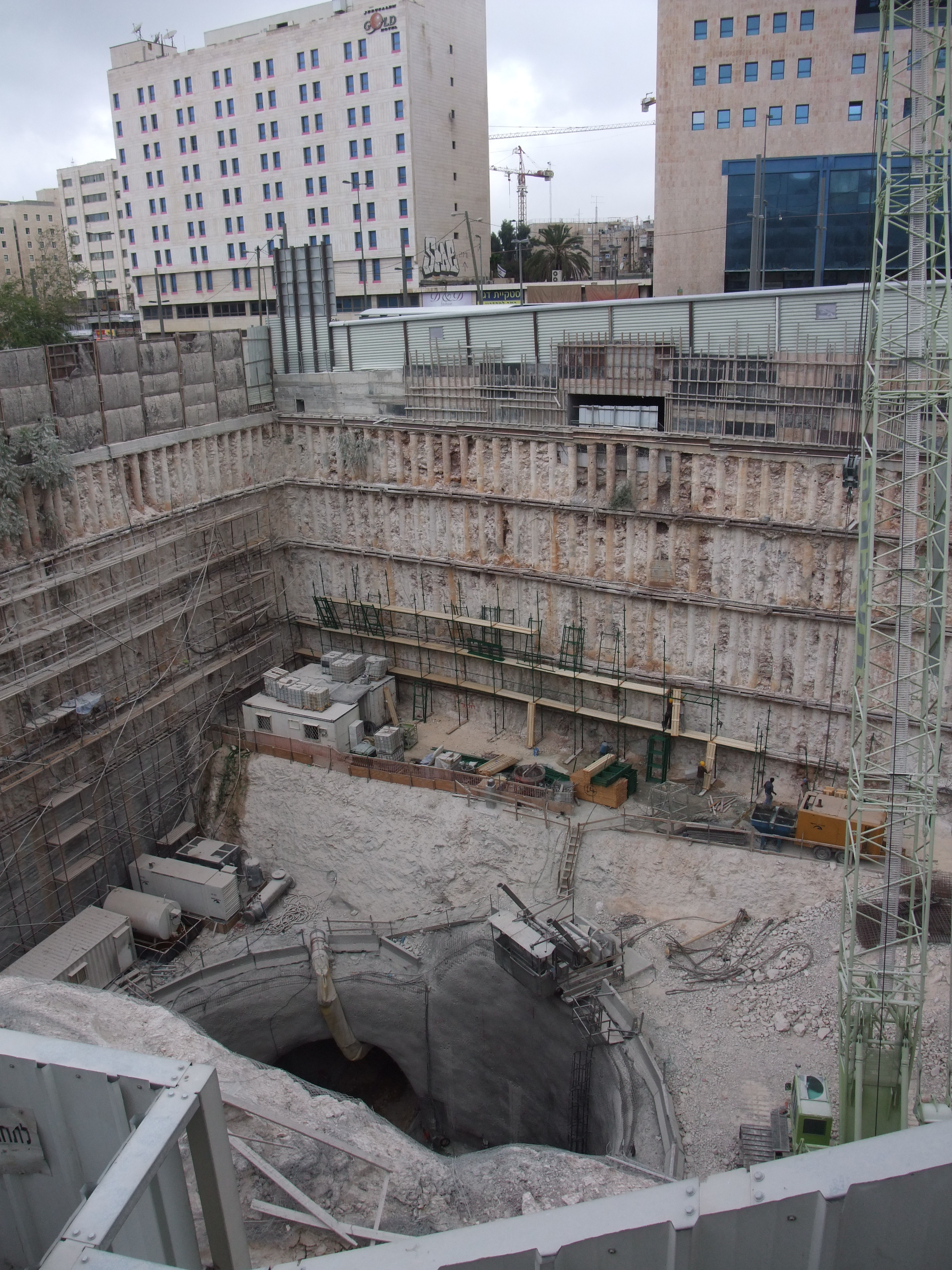 Jerusalem, near Central Bus station - construction site of the new railway station for the high-speed train between Jerusalem and Tel Aviv